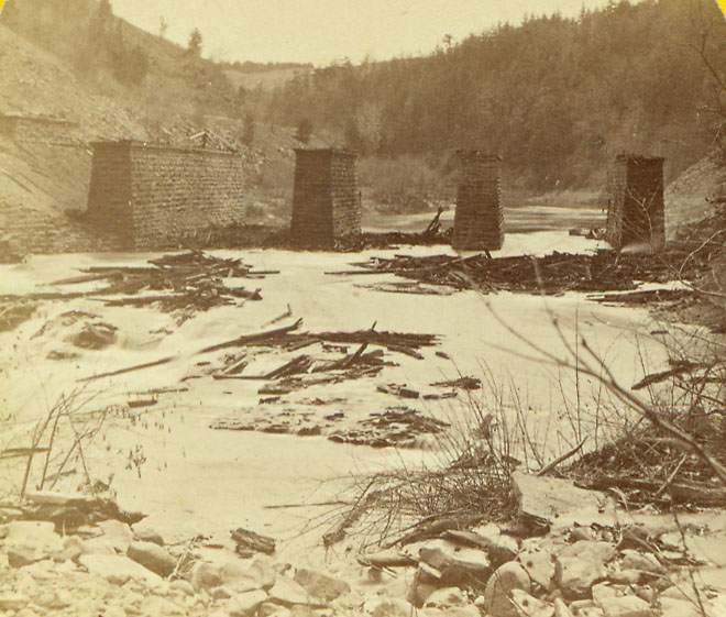 Ruins of the Old Portage Bridge, 1875. The Erie Railroad Company built this wooden trestle bridge over the Genesee River just above the Upper Falls.